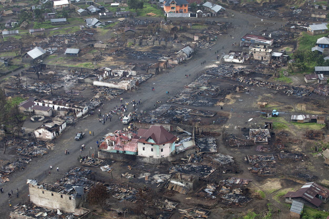 Kitshanga town center destroyed after 5 days of heavy fighting between APCLS militia and FARDC that claimed the lives of around 90 peoples and displaced more than 5000 persons.